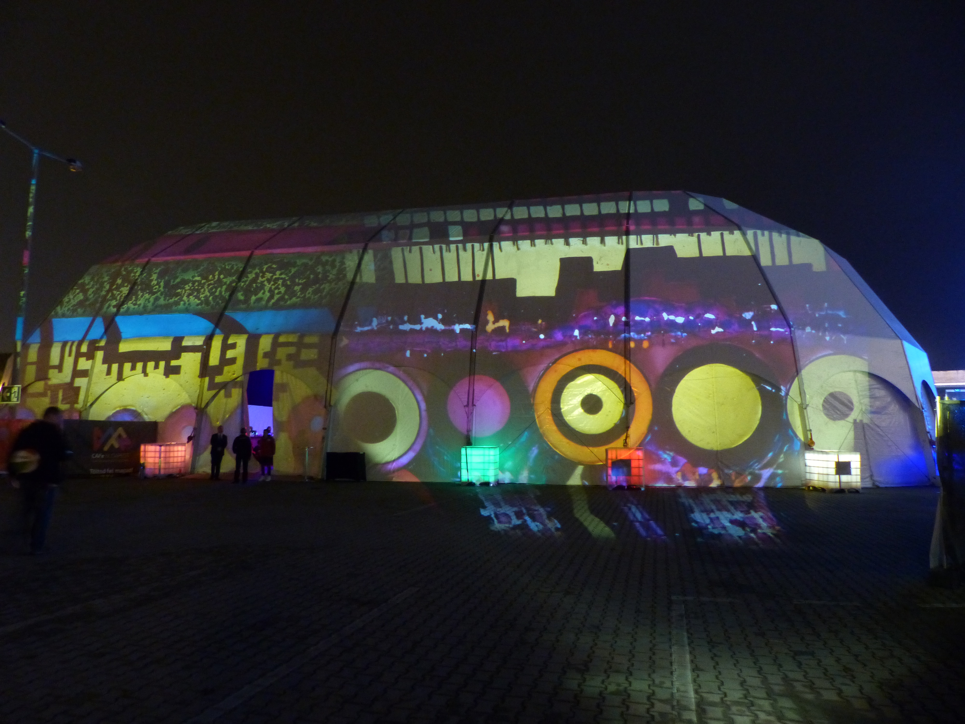 Both Miklós - Ukraine. Budapest Ritmo Festival 2016. Taken on the 15th of October, 2016. Művészetek Palotája, Budapest, Hungary. Central Europe.